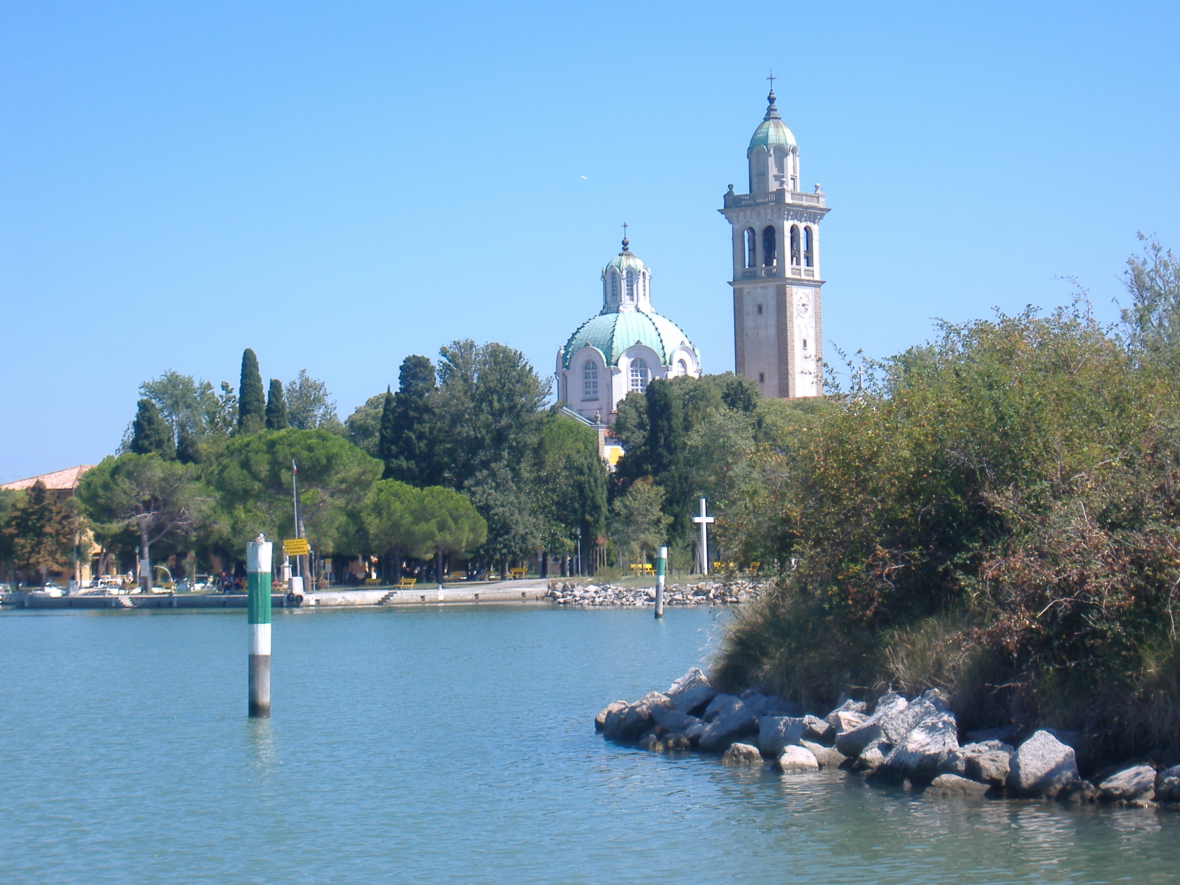 Barbana Island (Grado, Italy).